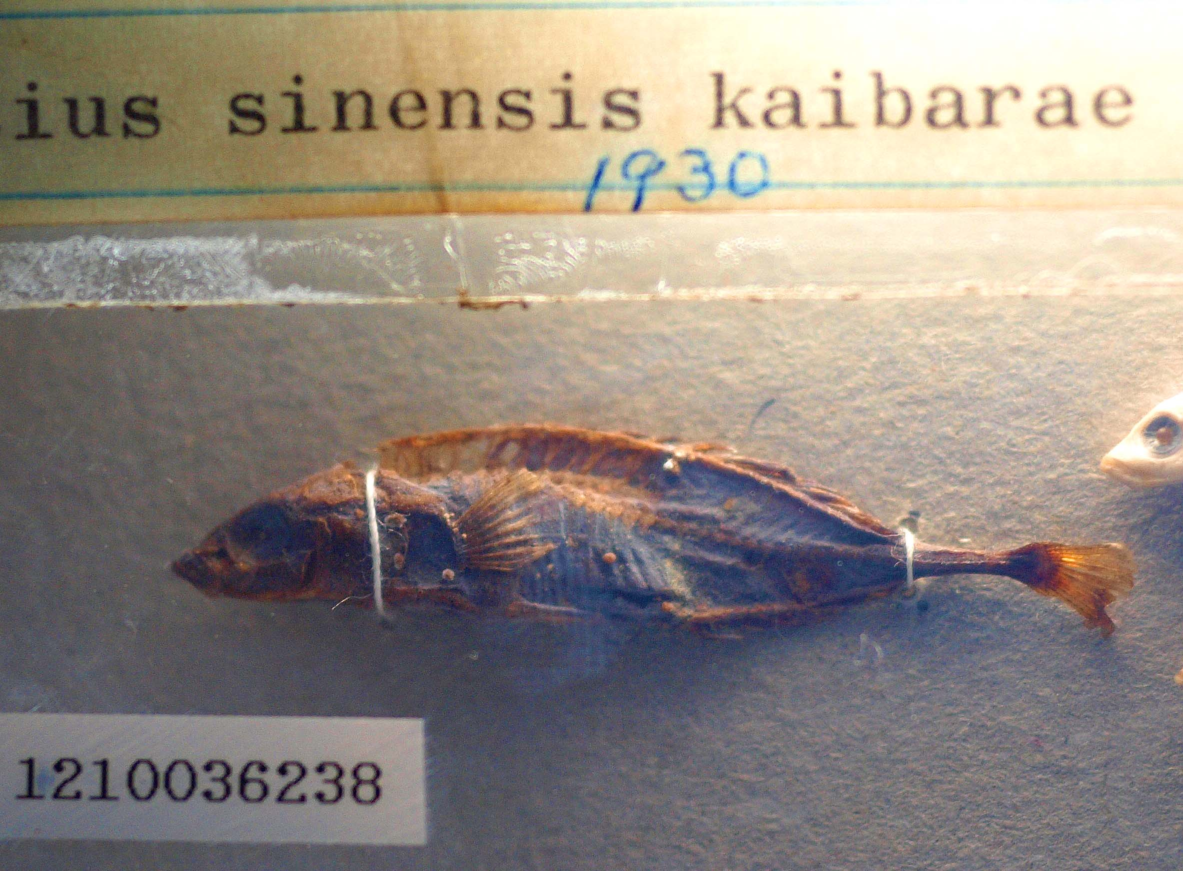 Amur stickleback (Pungitius sinensis (Guichenot, 1869)) (syn: Pungitius kaibarae (Tanaka, 1915))